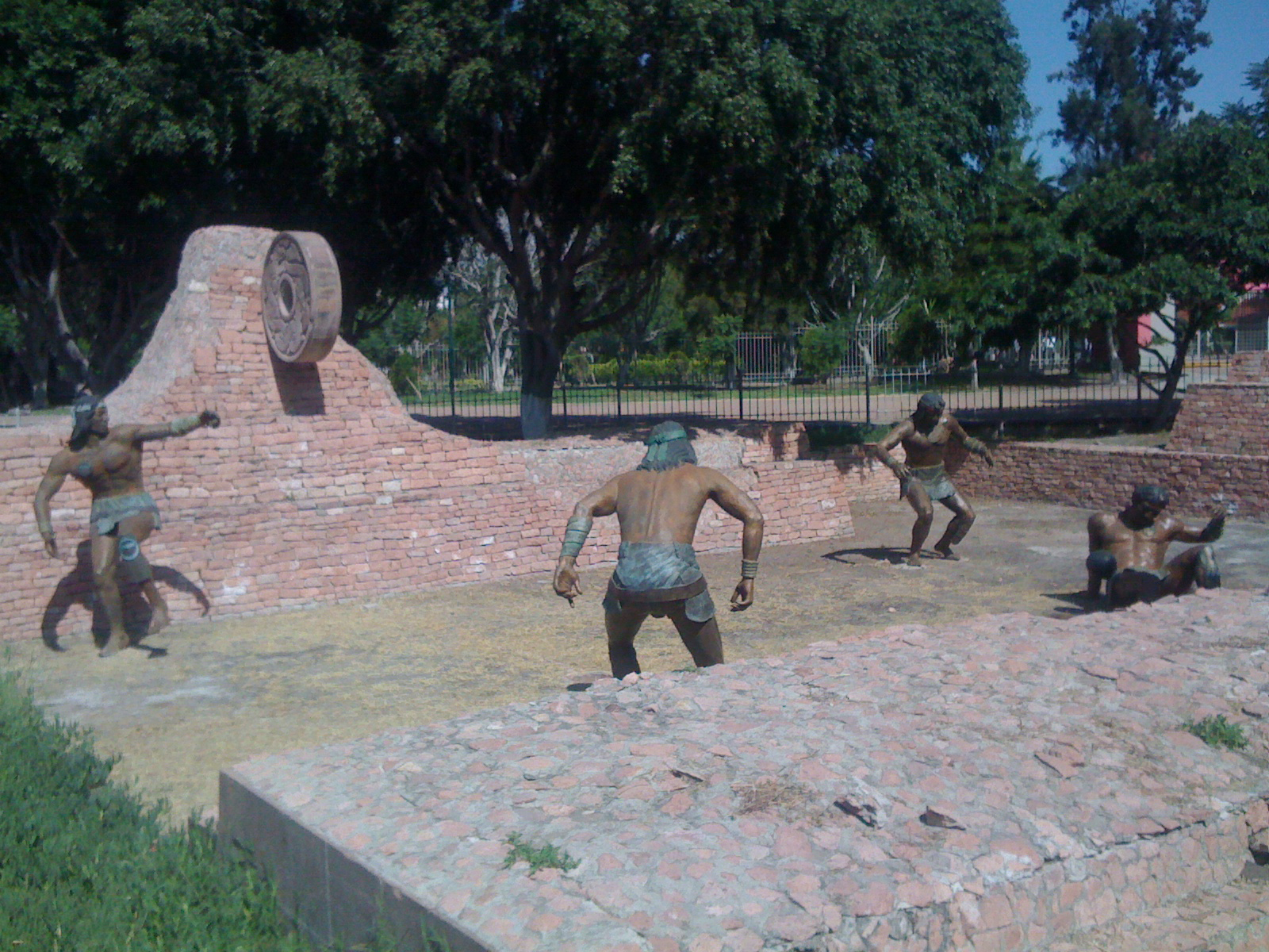 Juan Velasco's group of sculptures developed in 1991. The four sacred ball players represent Quetzalcoatl, Cihuacoatl, Cinteotl and Ixtlilton. Ndamaxey is the name given by Otomi people to Queretaro meaning "Place for the Great Ball Game".